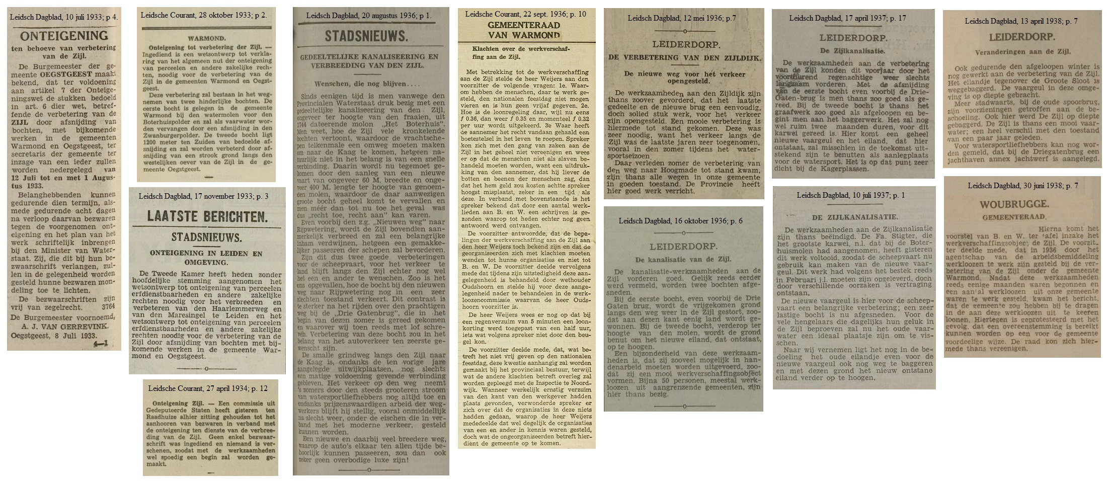 A compilation of newspaper articles from various newspapers from the area around Leiden (Netherlands) about the improvements to the river Zijl.